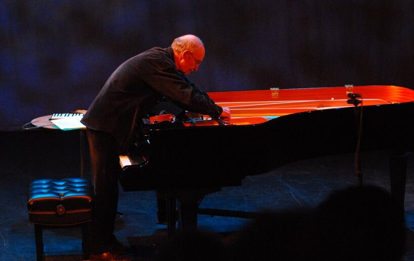 Christian Wolff "un-prepares" his piano.